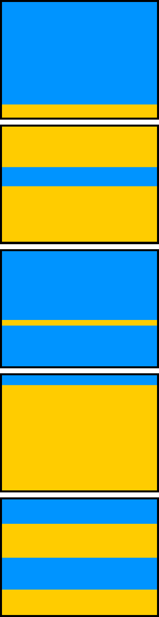 A depiction of 5 frames showing what might happen in a multi-GPU setup to illustrate the temporal artifact known as micro stuttering. For this example, the blue areas represent GPU 0's frame buffer while the orange areas represent GPU 1's frame buffer. Each color change represents a frame buffer swap. This means, for example, GPU 1 ends Frame 1 and begins Frame 2. A benchmark tool (such as FRAPS) may see this as 144 frames per second as there are about 12 frames in a period of 0.2 seconds. However, the user perceives less than that, as some refresh cycles depict mostly whole frame buffers from either GPU.